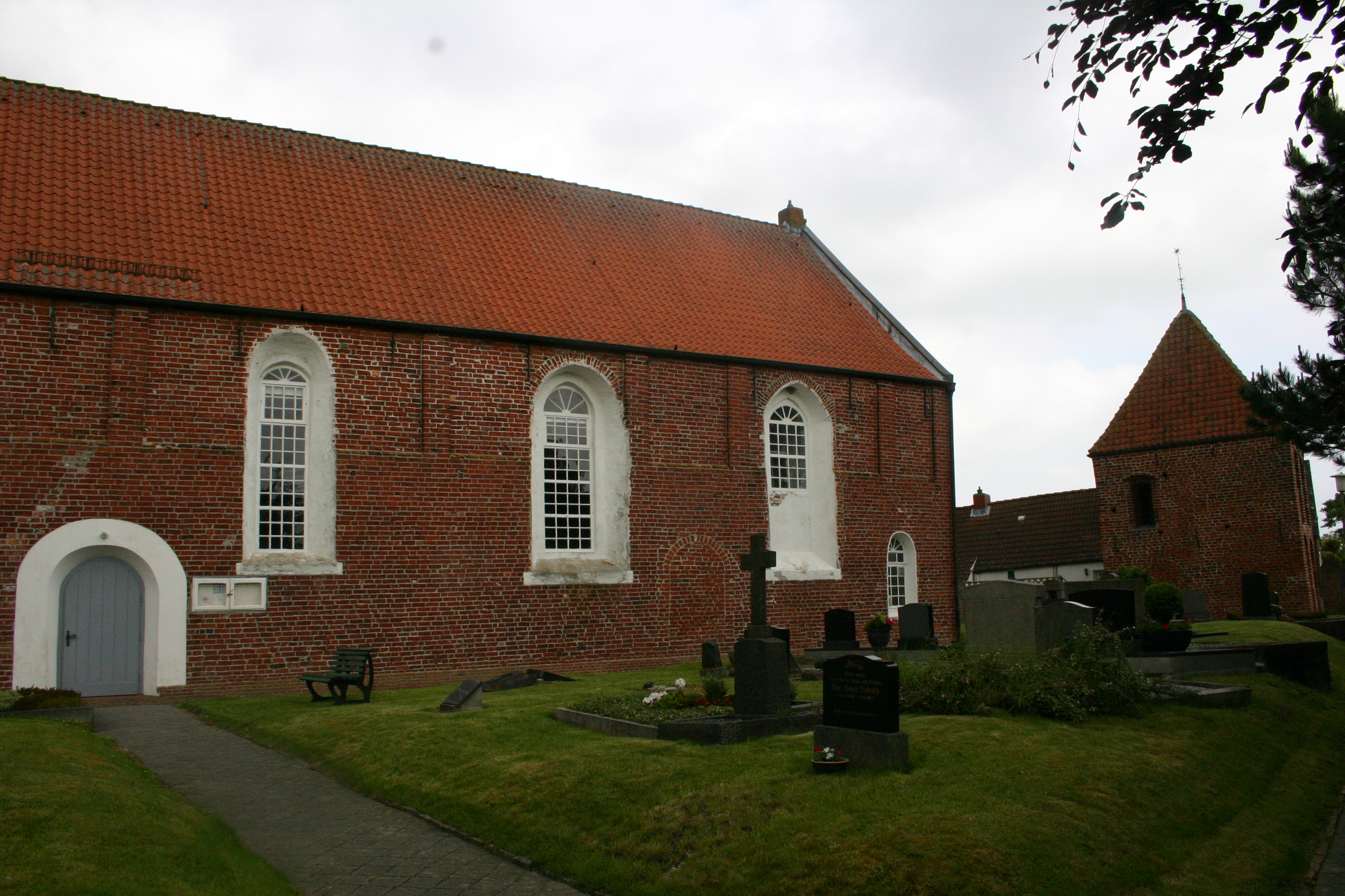 Historic church in Freepsum, district of Aurich, East Frisia, Germany